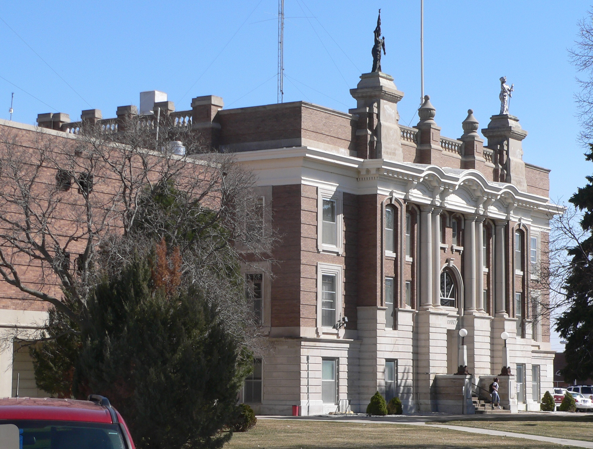 Dawson County Courthouse in Lexington, Nebraska; seen from the northwest. The courthouse was designed in Beaux-Arts style by architect William F. Gernandt and built in 1913. It is listed in the National Register of Historic Places.